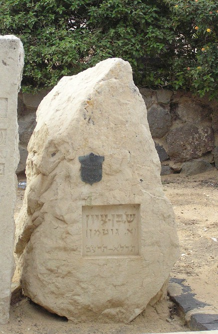 Tomb of S. Ben Zion (Hebrew autor) in Trumpeldor cemetery in Tel Aviv photographed by Eman, February 2006